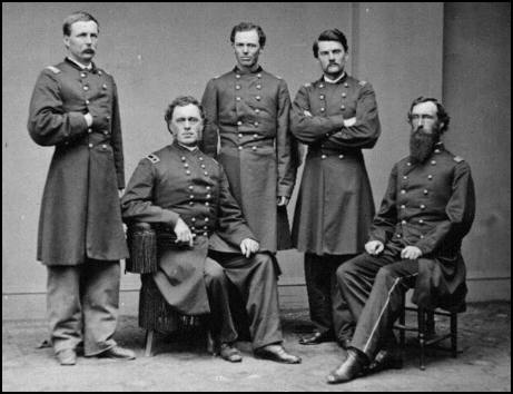 photo of James Blair Steedman (1817-1883)